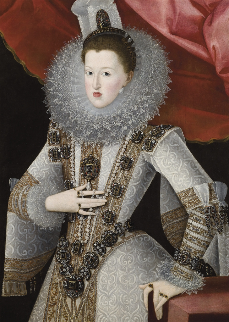 Portrait of Margaret of Austria, Queen of Spain